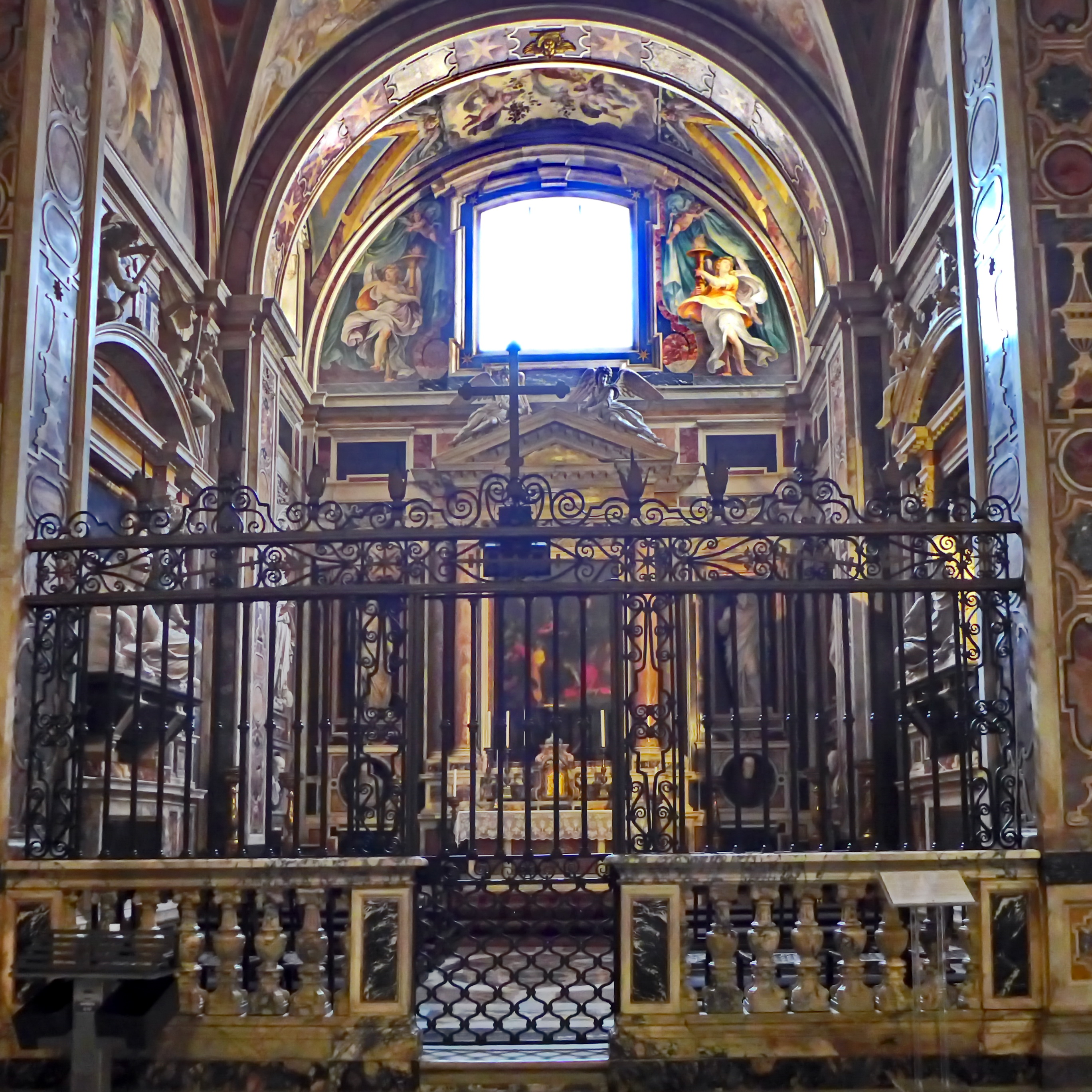 Santa Maria sopra Minerva (Rome), Cappella Aldobrandini